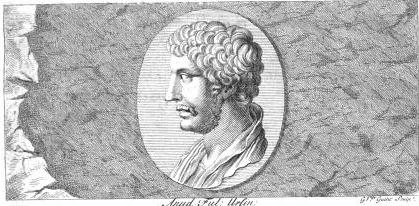 Portrait of Alcibaides, taken from a gem. Illustration to vol. 2 of the Vitae parallelae of Plutarch, from the edition by Augustine Bryan.